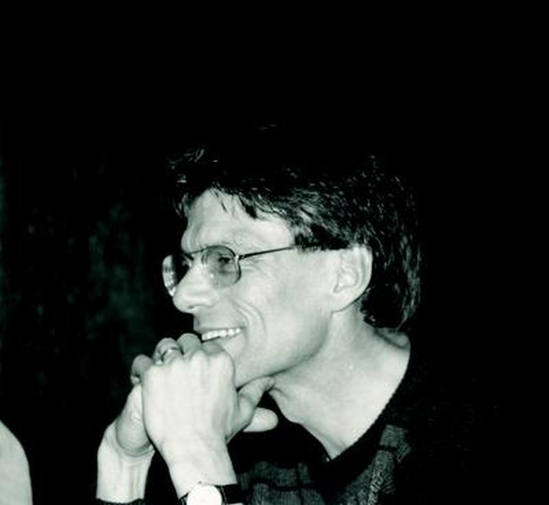 Laurens de Haan, Oberwolfach 1987